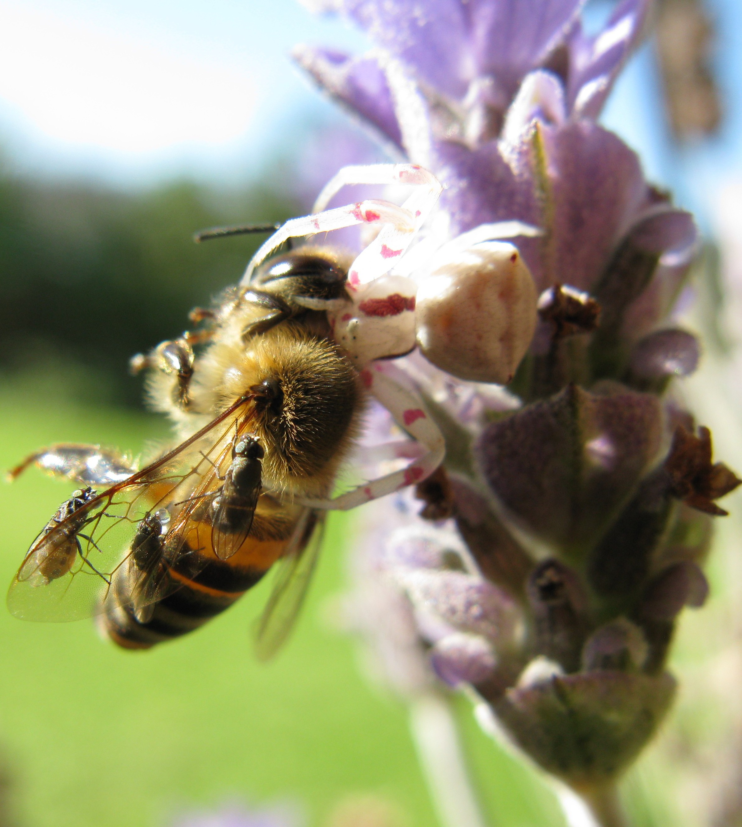 Note that the Milichiids appear to be gorging rapidly in the five minutes or so since the photo session began.